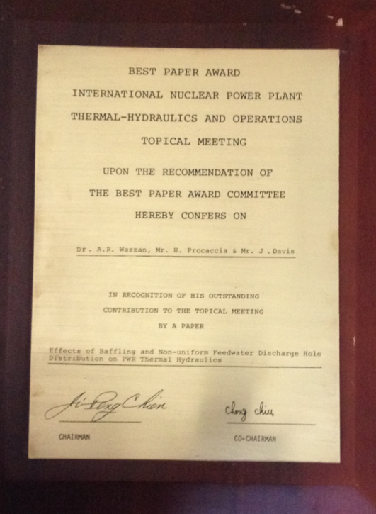 award